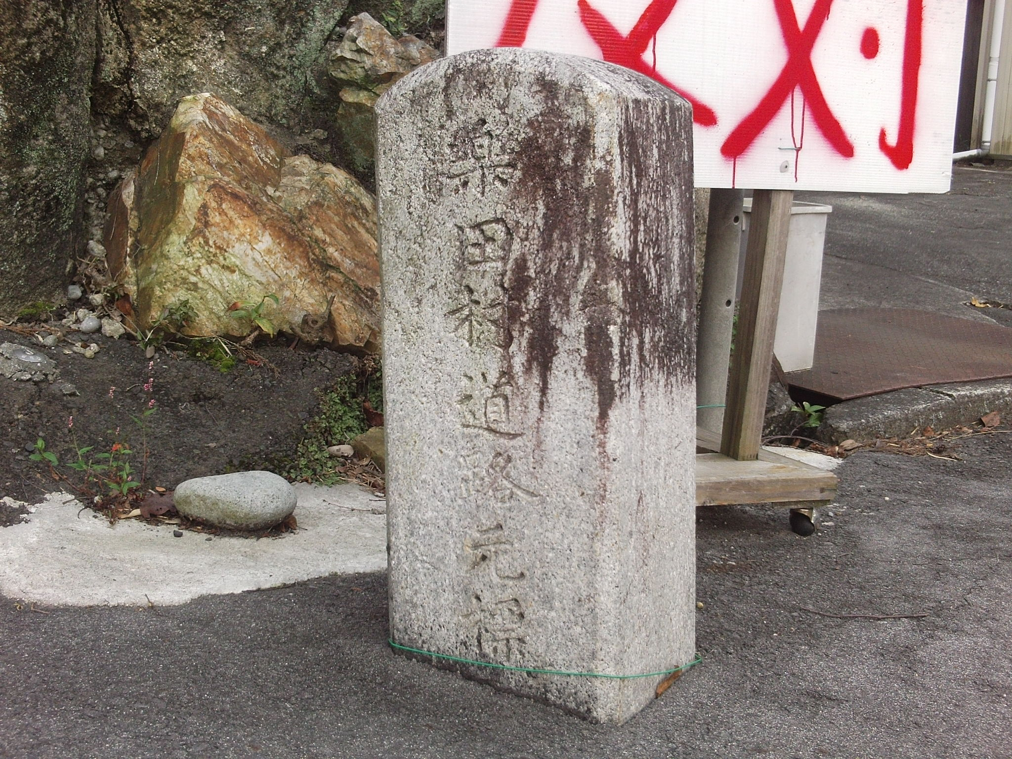 Kilometre zero of Gakuden village. (Gakuden village, Niwa-gun, Aichi.)